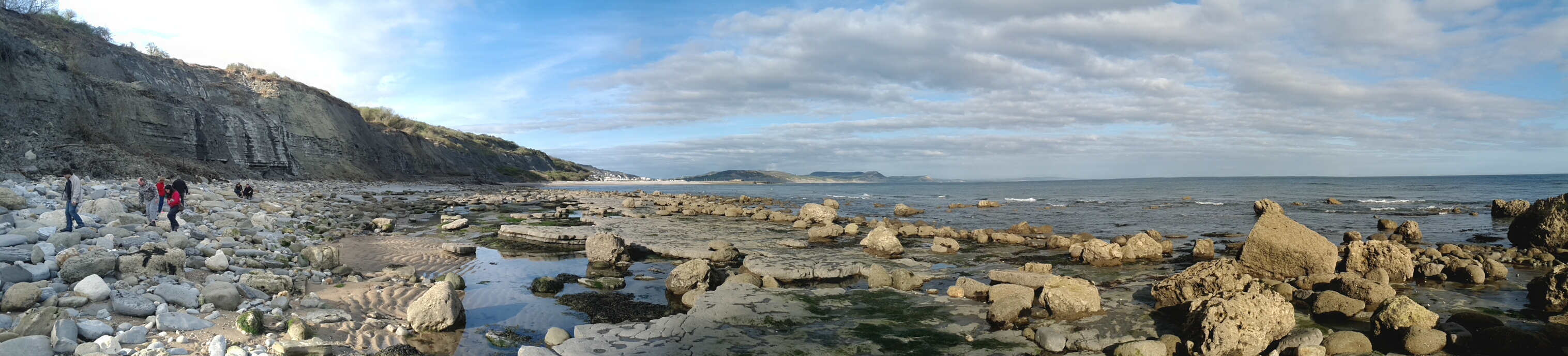 People collecting fossil in Lyme Regis at the fossil festival